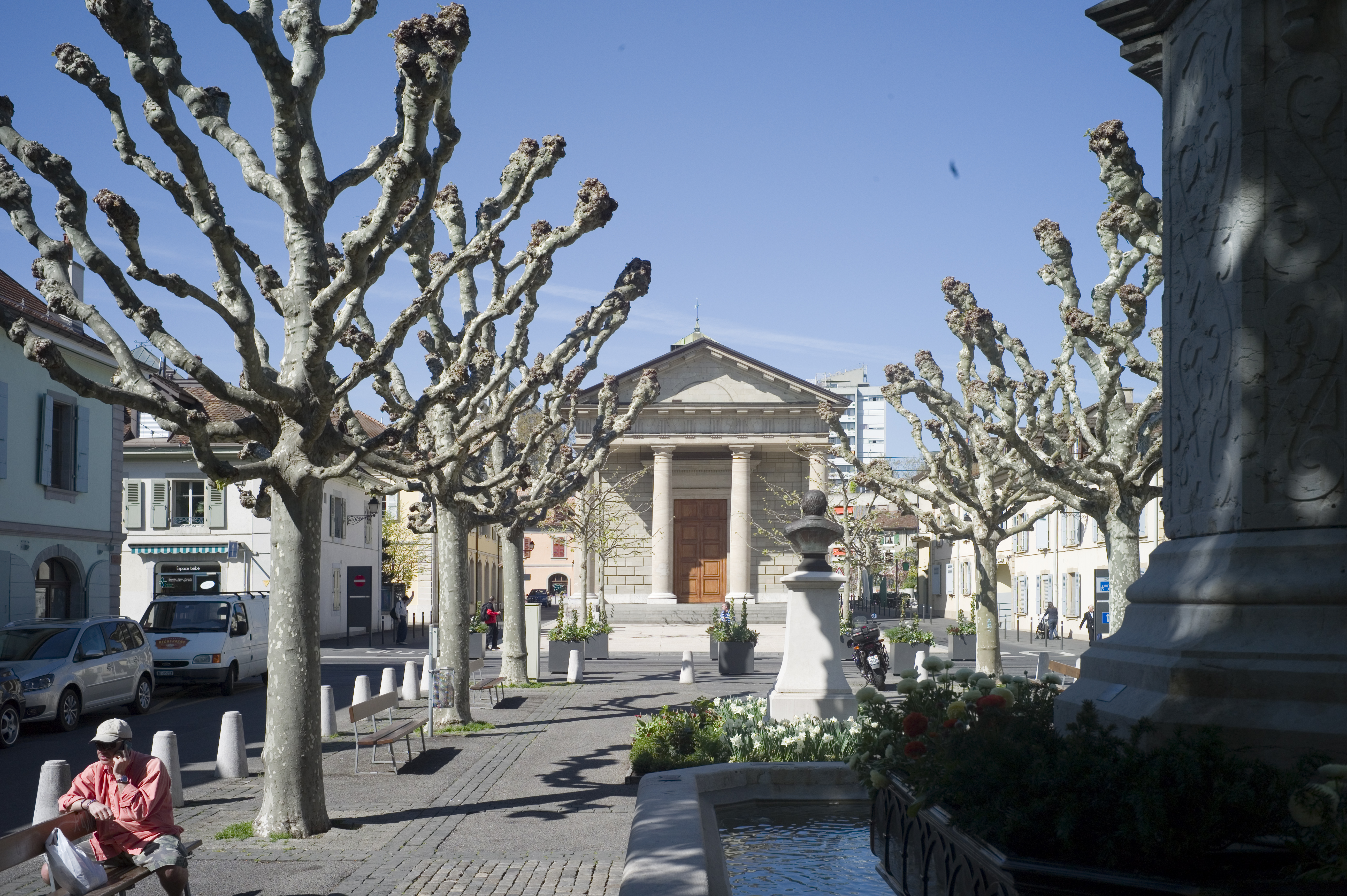 Carouge, Geneva, Switzerland: Place du Temple